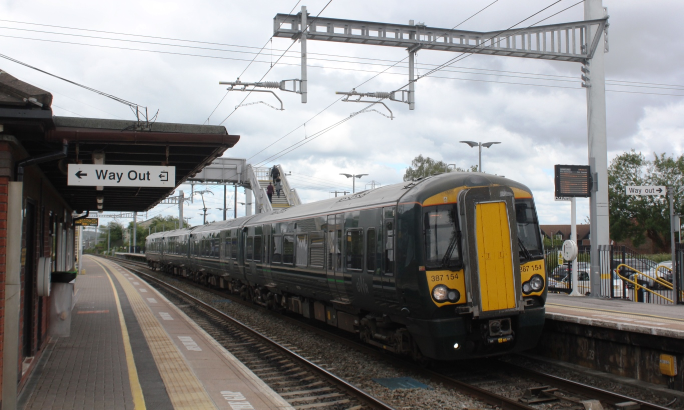 Great Western Railway 'Electrostar' 387154 calls at Thatcham while on its way from Reading to Newbury.